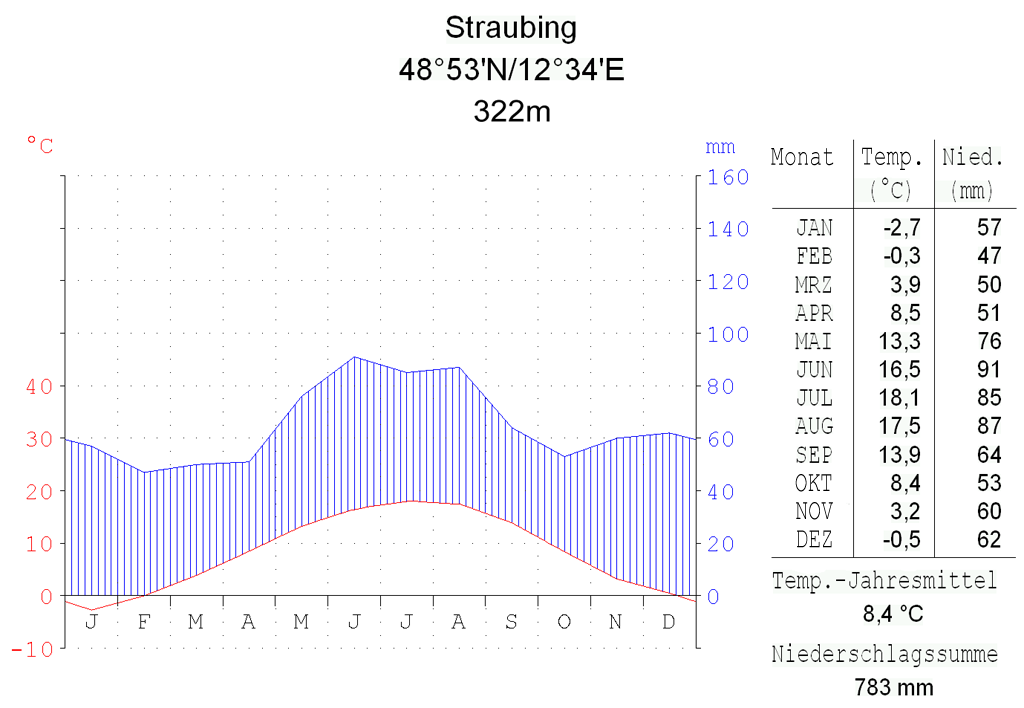 climate chart in the format by Walter and Lieth, metric, °Celsius and millimeters